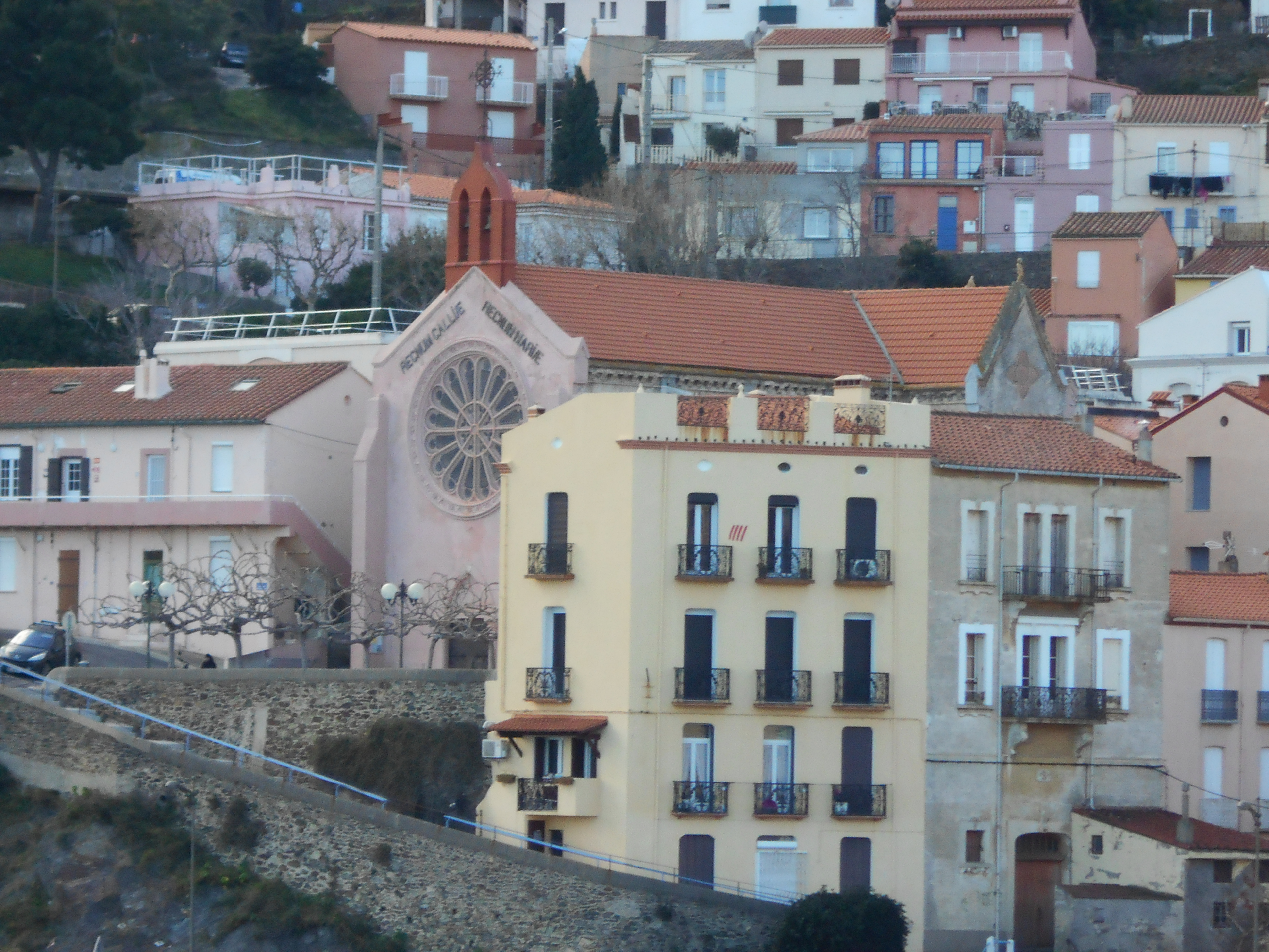 Transfiguration du Saint-Sauveur church in Cerbère, France